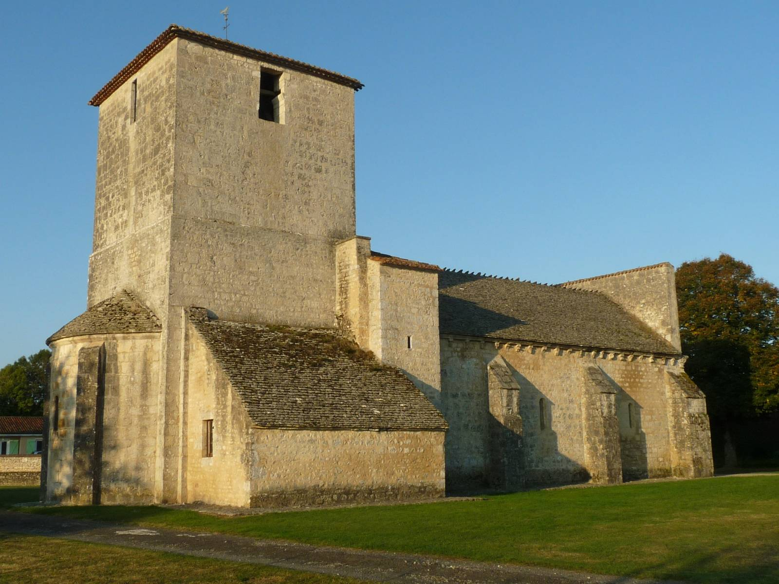 church of La Rochette, Charente, SW France